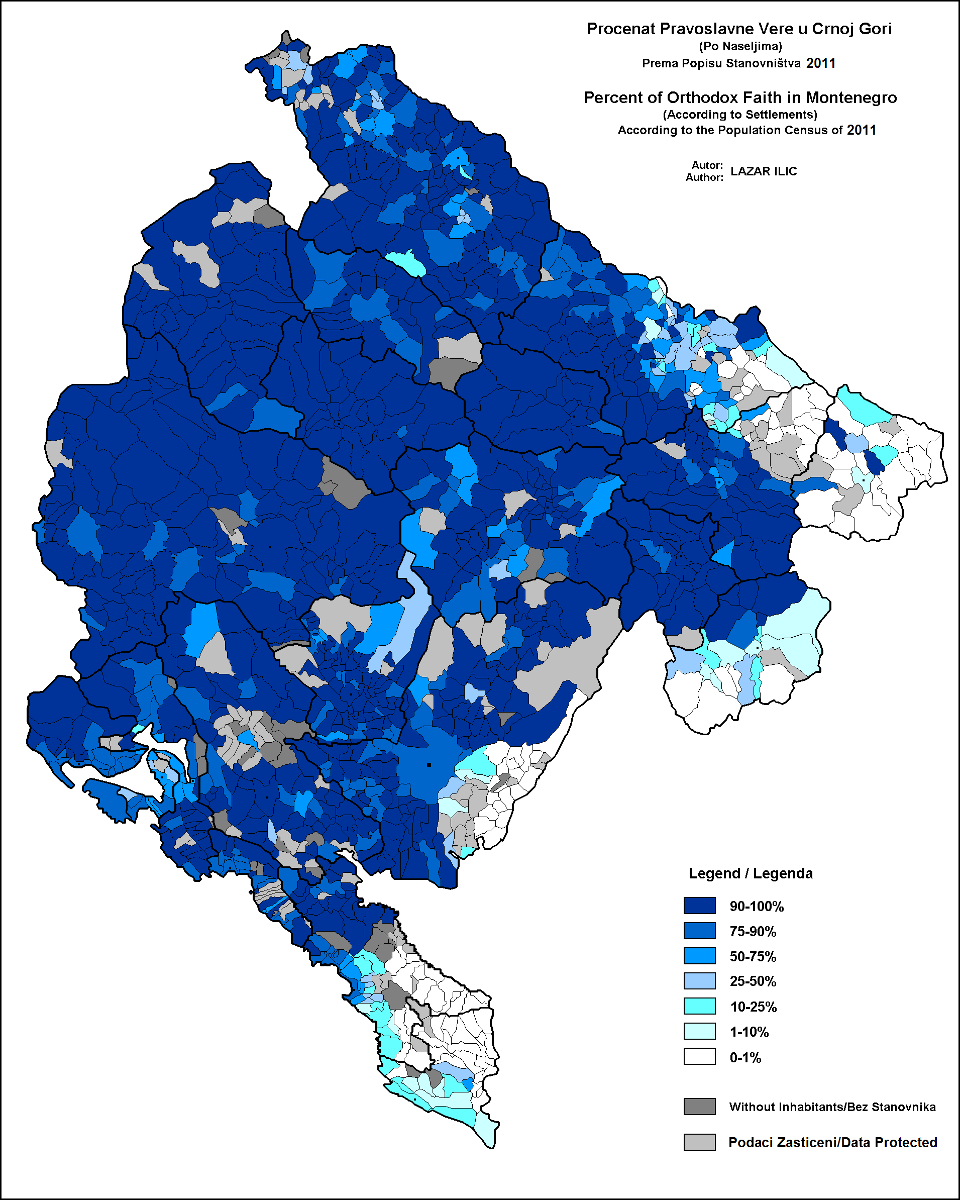 This map shows the percent of people of orthodox faith in montenegro, according to the 2011 census, by settlements.